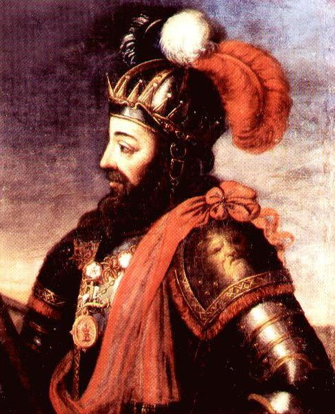 o rei